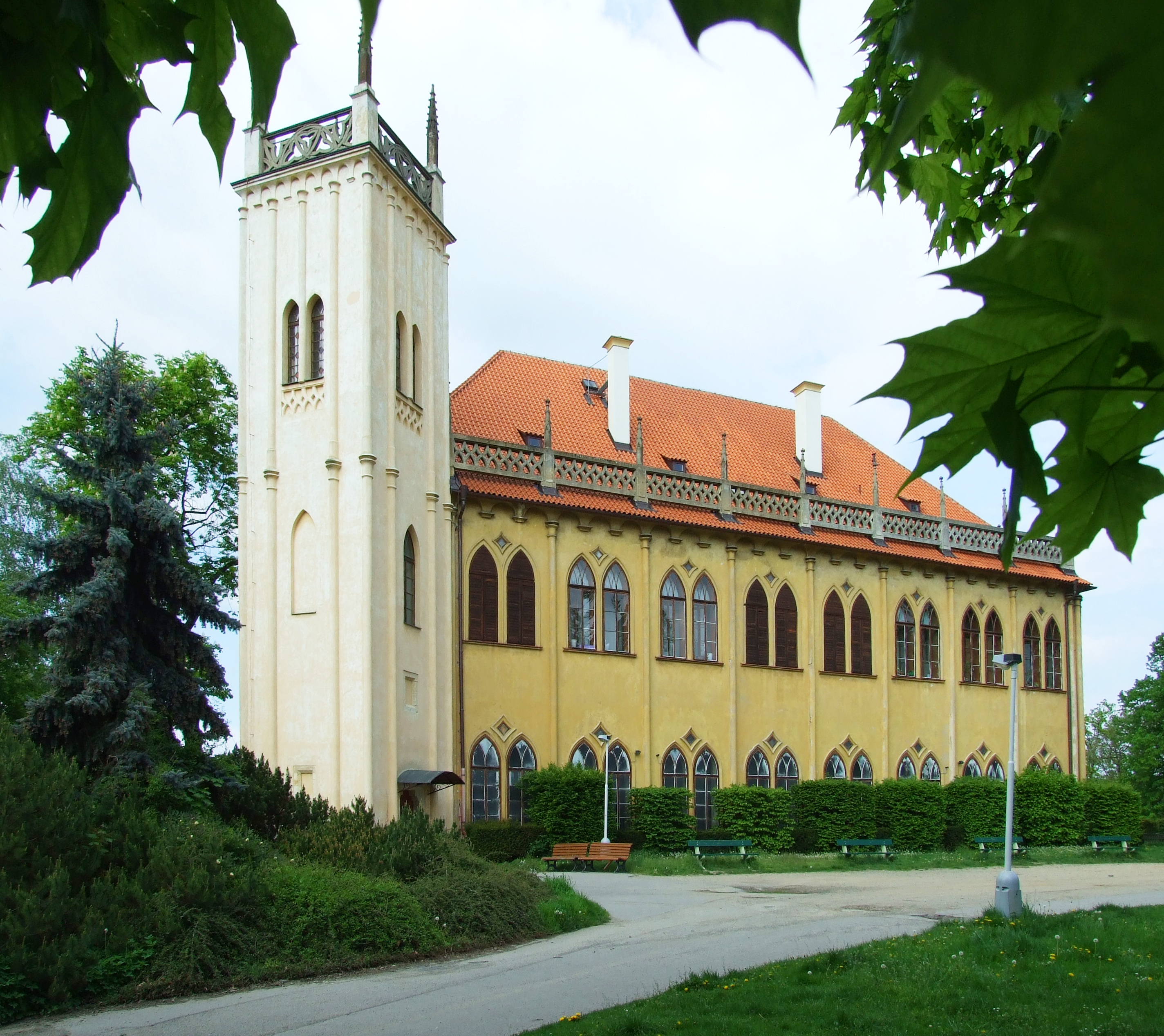 Místodržitelský letohrádek building in Stromovka park, located in its southern parthelp